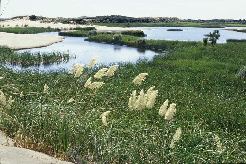 Dune lake, Pouto Peninsula, Kaipara Harbour. Kaipara Harbour is New Zealand’s largest enclosed harbour and estuarine system with a high diversity of habitats including freshwater swamps, saline wetlands, coastal scrub and forests.